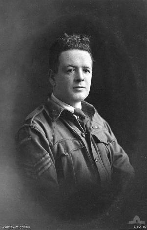 Studio portrait of Sergeant Maurice Vincent Buckley VC, DCM, an Australian recipient of the Victoria Cross during World War I.